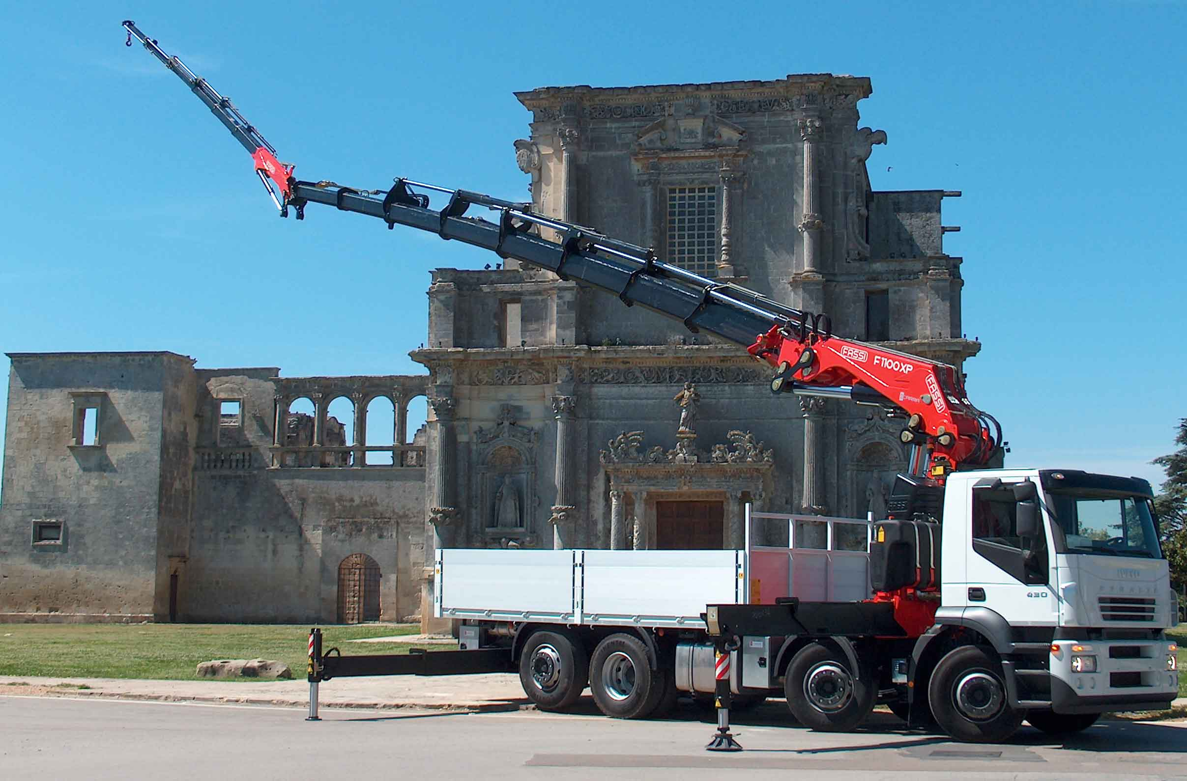 Iveco Stralis 430 truck.